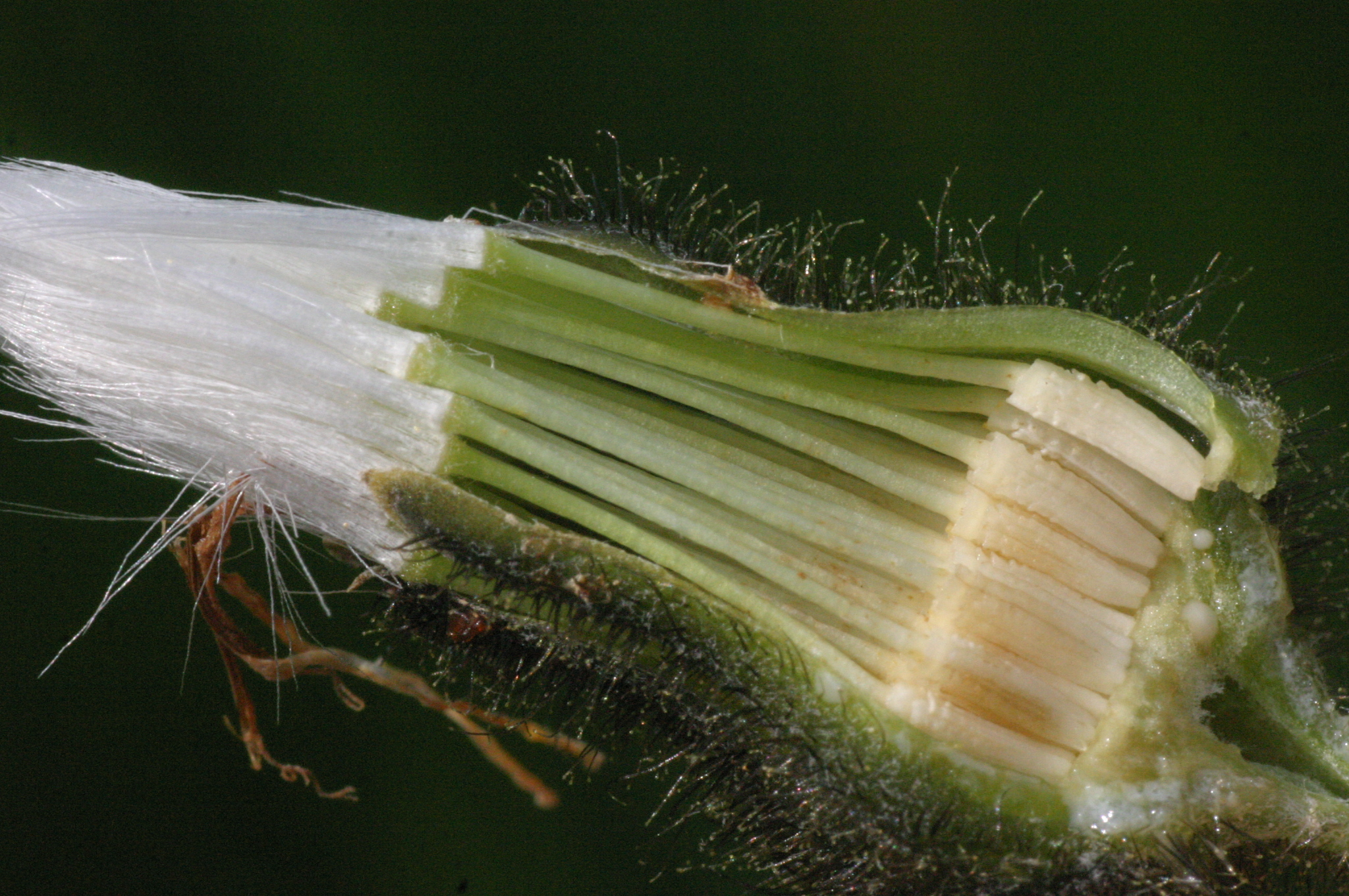 Willemetia stipitata